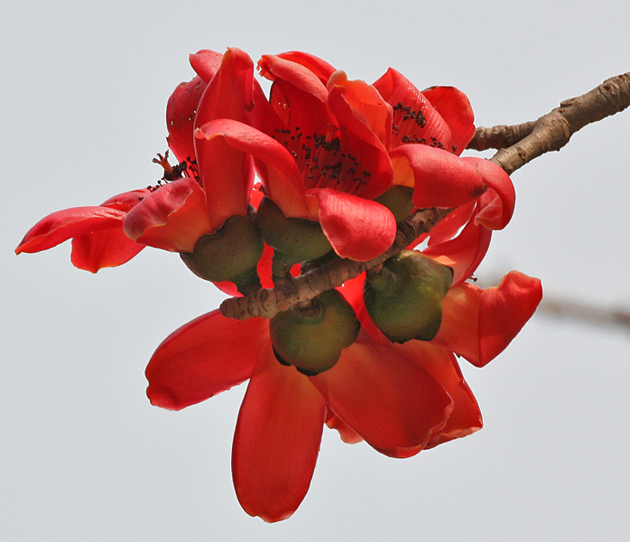 Semal Bombax ceiba in Kolkata, West Bengal, India.